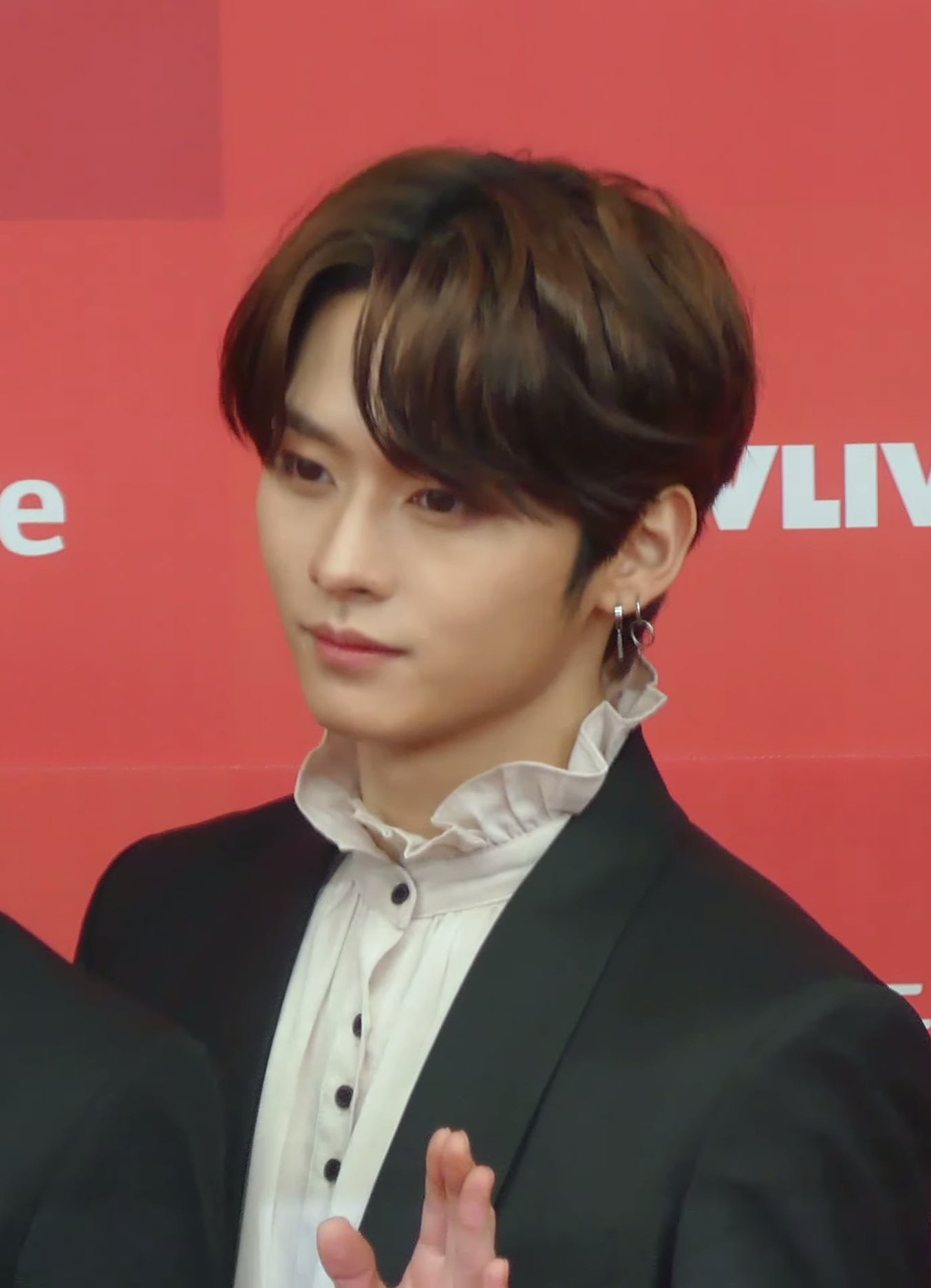 中文（台灣）: Stray Kids Lee Know於2019年1月6日在第33屆金唱片獎頒獎典禮